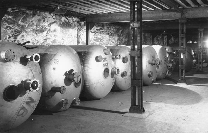 Fuel tanks (1000 gallons) in the Kohnstein at the Niedersachswerfen V-1 flying bomb and A4/V-2 rocket fabrication plant.